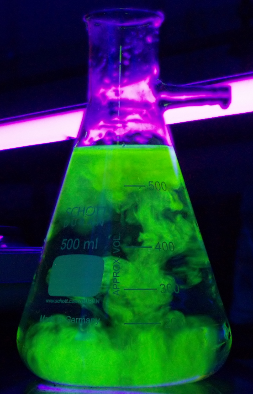 Fluorescein in aqueous solution is fluorescing under ultraviolet light.